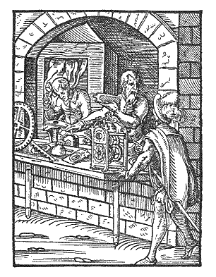 Woodcut of medieval clockmakers titled 'Der Uhrmacher' by Jost Amman, from a 1568 book by German poet Hans Sachs titled 'All the trades on the Earth'. This book consists of a list of 116 medieval trades or jobs, with a woodcut and a verse by Sachs describing each one. It has been republished as Jost Amman and Hans Sachs (1973) Book of Trades, with an introduction by Benjamin A. Rifkin. New York: Dover Publications, Inc., ISBN 048622886X. Alterations to image: replaced transparent background areas with white, converted from GIF to PNG.